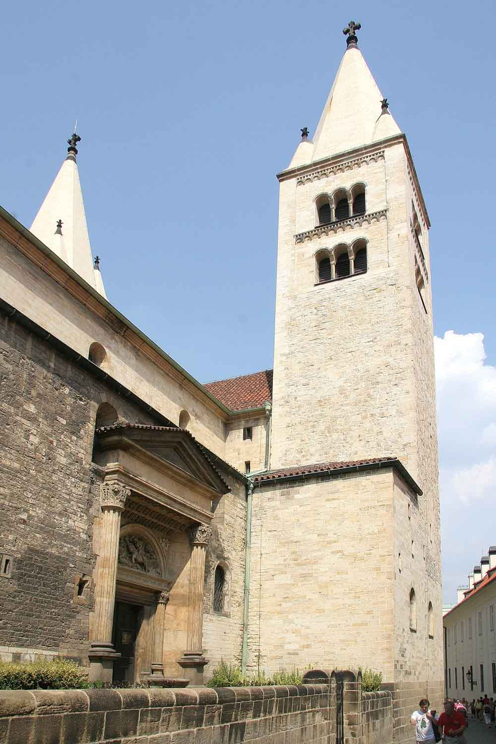 St George basicila in Prague Castle